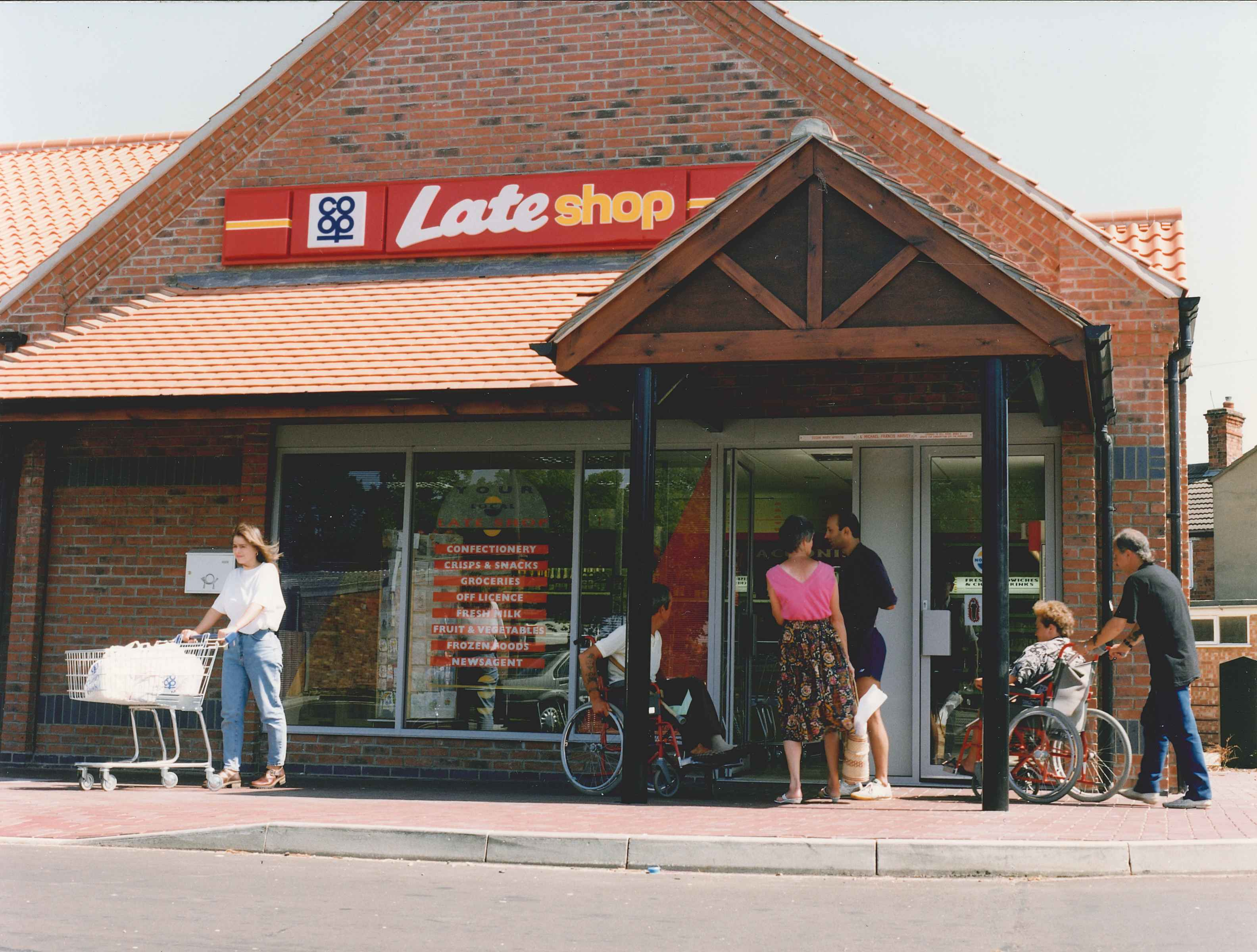 Opened April 1995